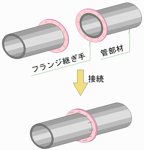 Image of flange joint.